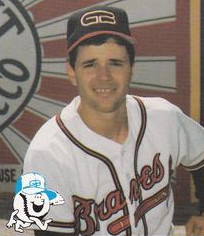 Professional baseball player Mark Lemke